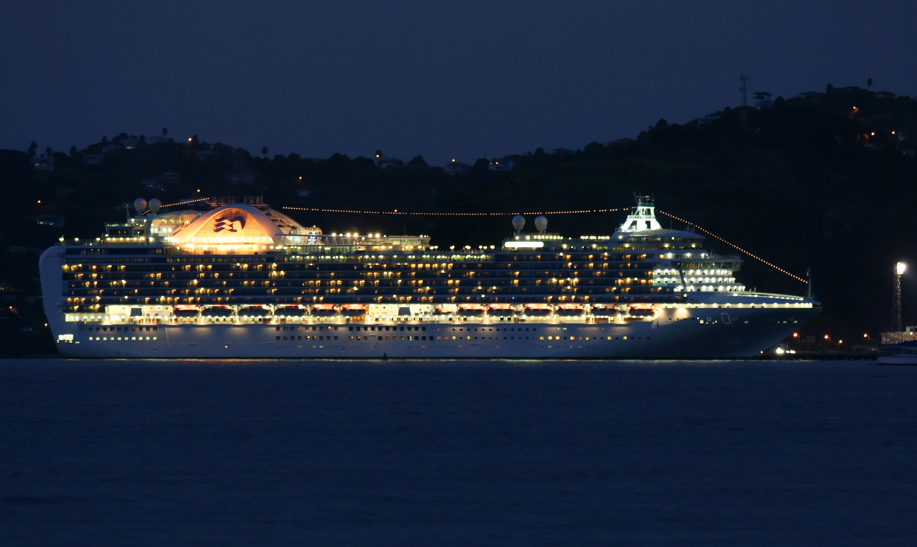 Ruby Princess in Grenada at night